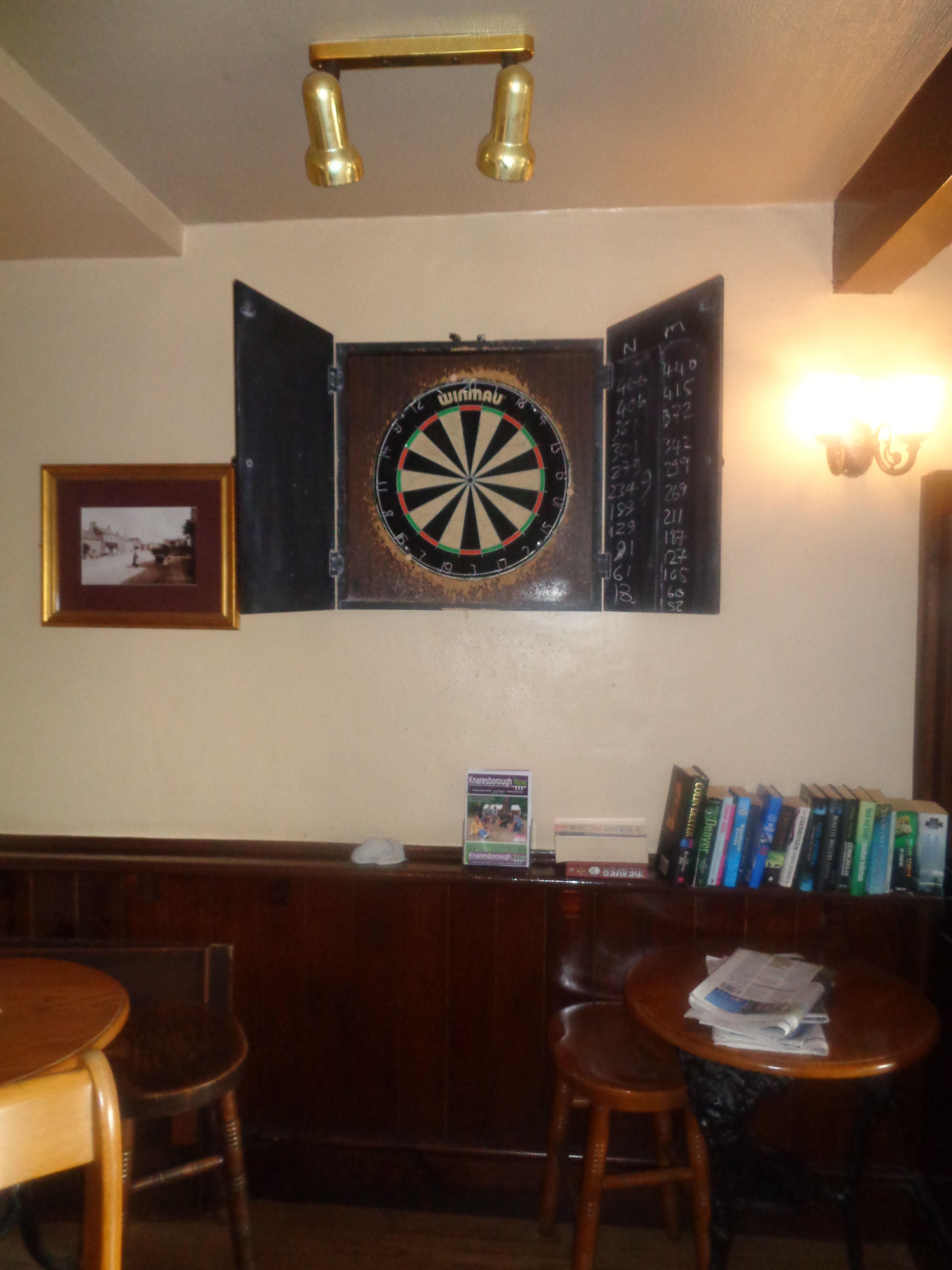 Dartboard in the public bar, Railway Inn, Spofforth, North Yorkshire. The pictures are new, having been up only a couple of days. Taken on the evening of Saturday the 1st of August 2015.